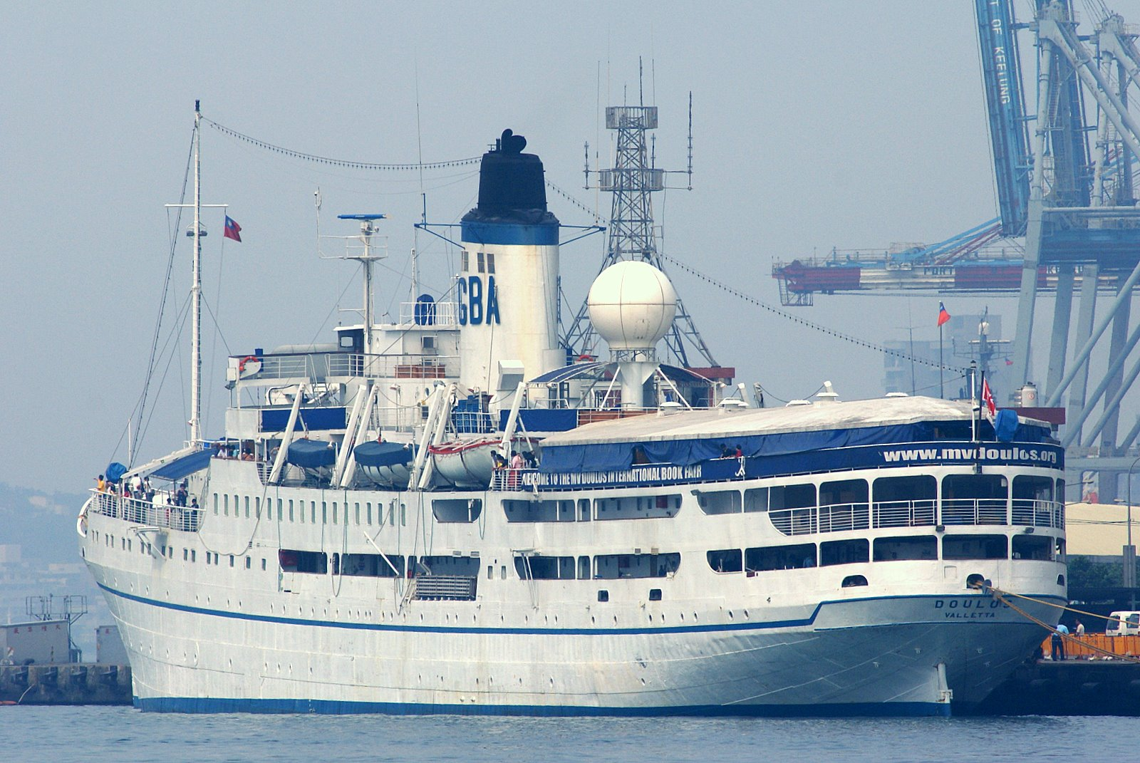 M/V Doulos IMO Number: 5119105 MMSI Number: 256056000 Callsign: 9HKF Length: 130 m Beam: 16 m